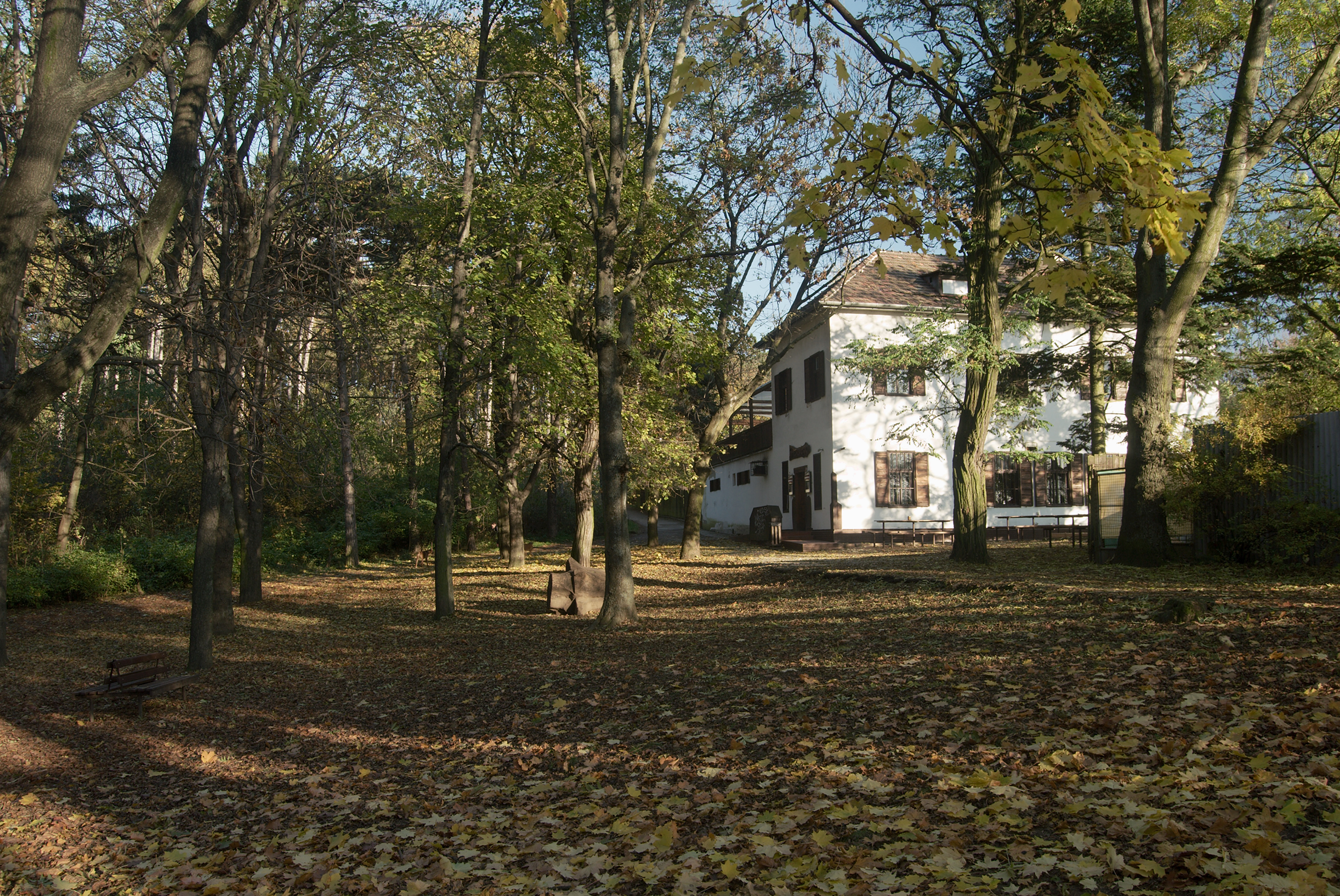 Brno-Židenice - environment of forest park Akátky